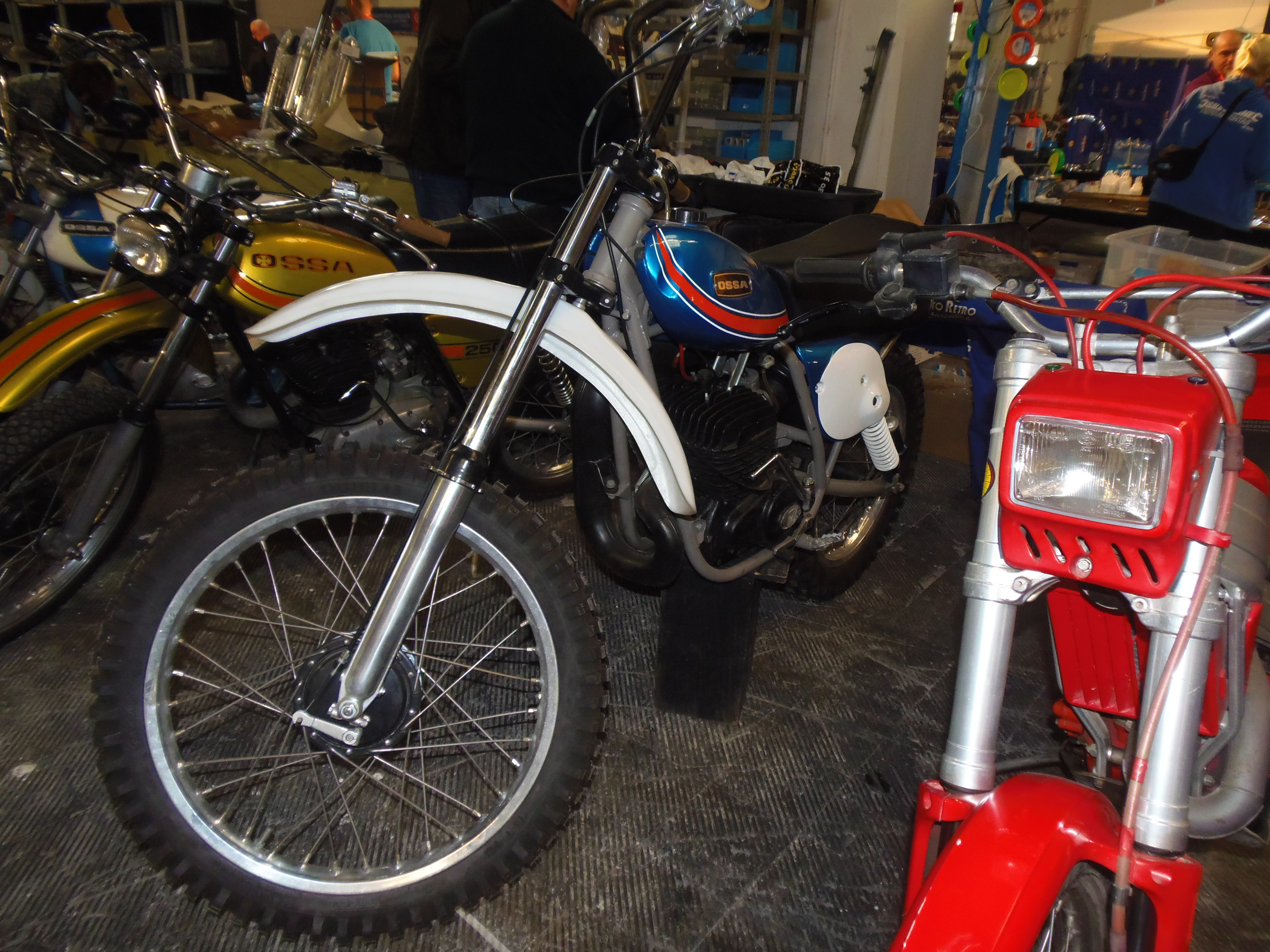 Ossa Phantom 250 AS 76, 1976